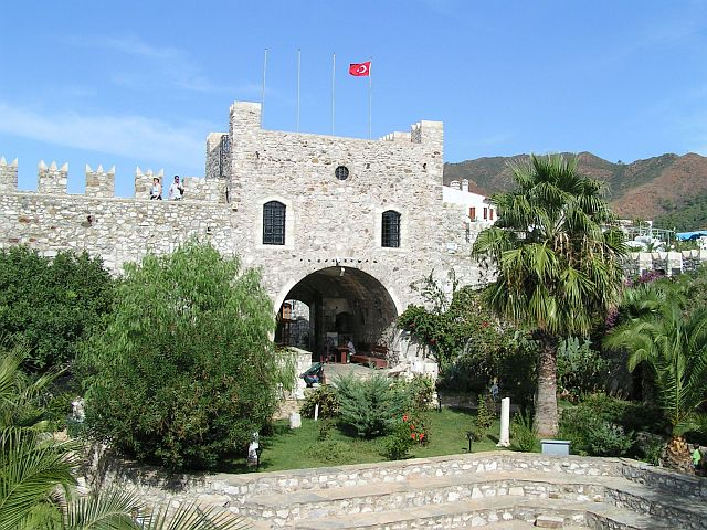 Marmaris Castle, Muğla province, Turkey.